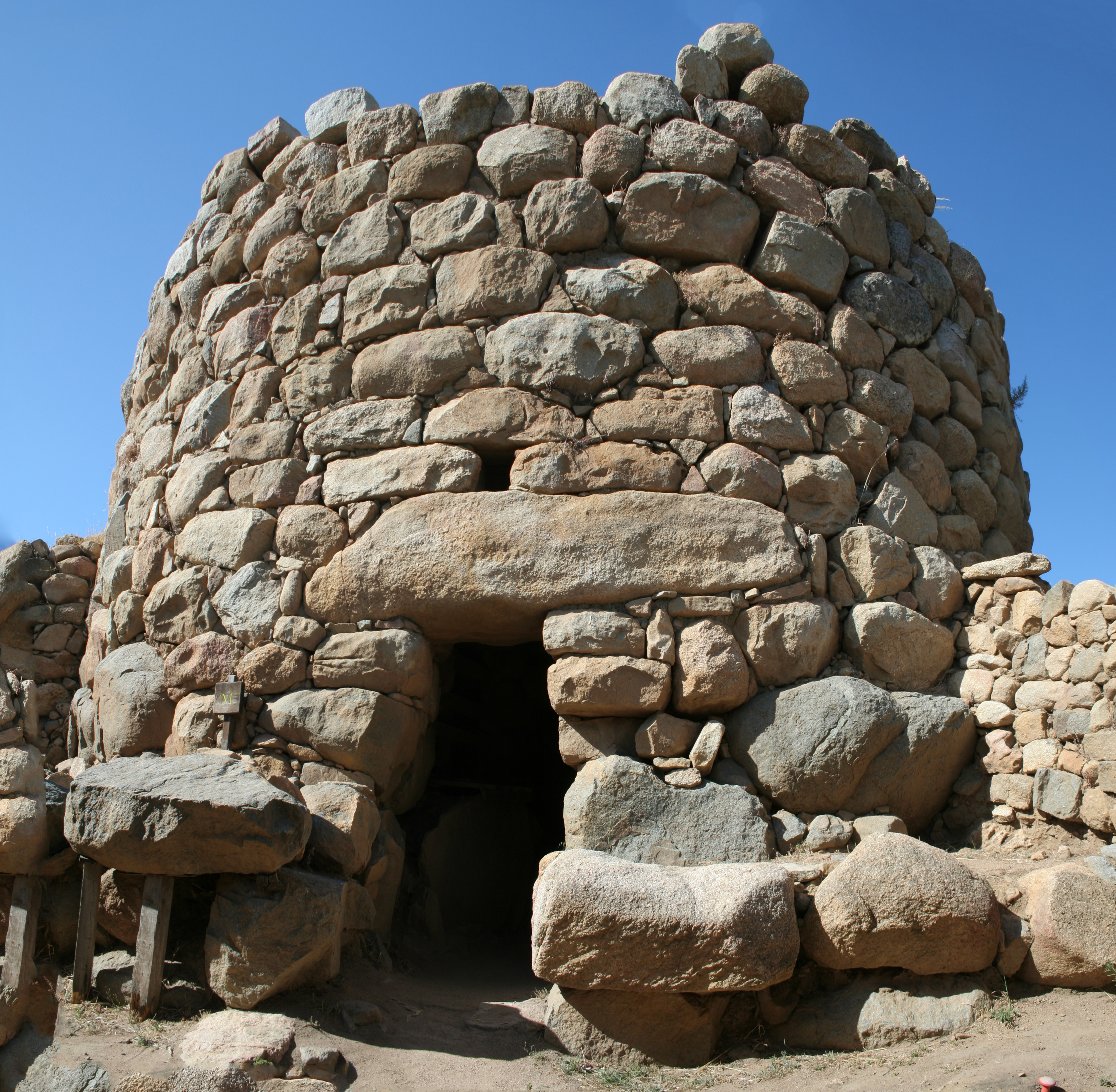 Nuraghe La Prisgiona near Arzachena, Sardinia, Italy